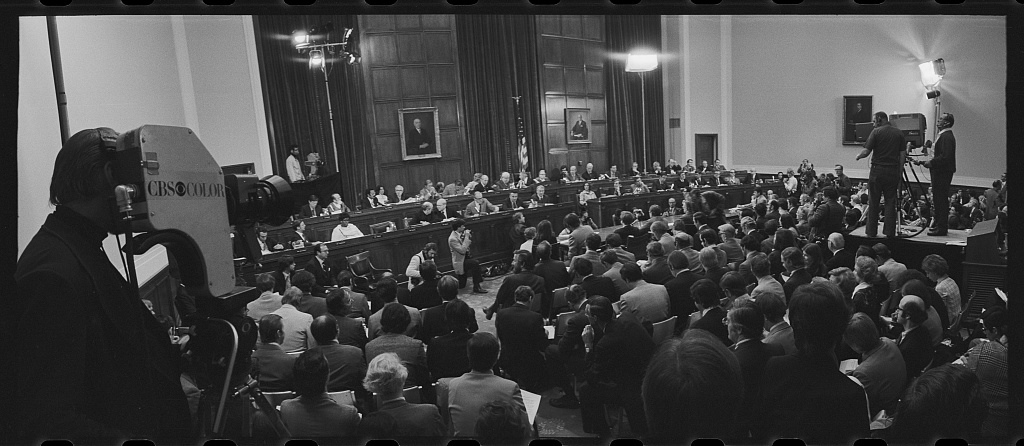 The Committee on the Judiciary Committee, United States House of Representatives, opened its formal impeachment hearings against President Richard Nixon on May 9, 1974.